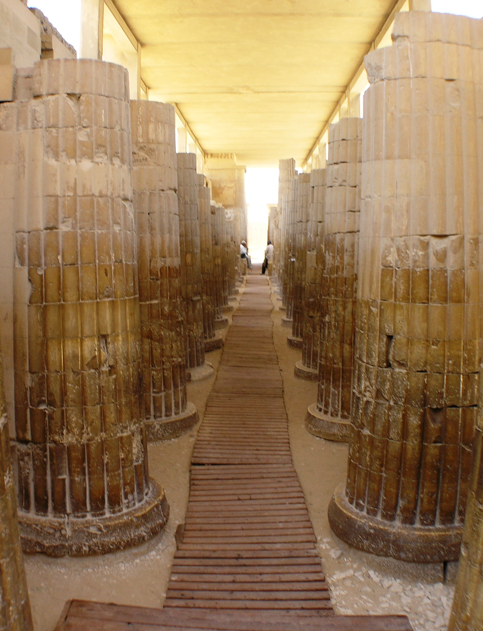 Saqqara - Pyramid of Djoser - Mortuary temple - Hypostyle hall